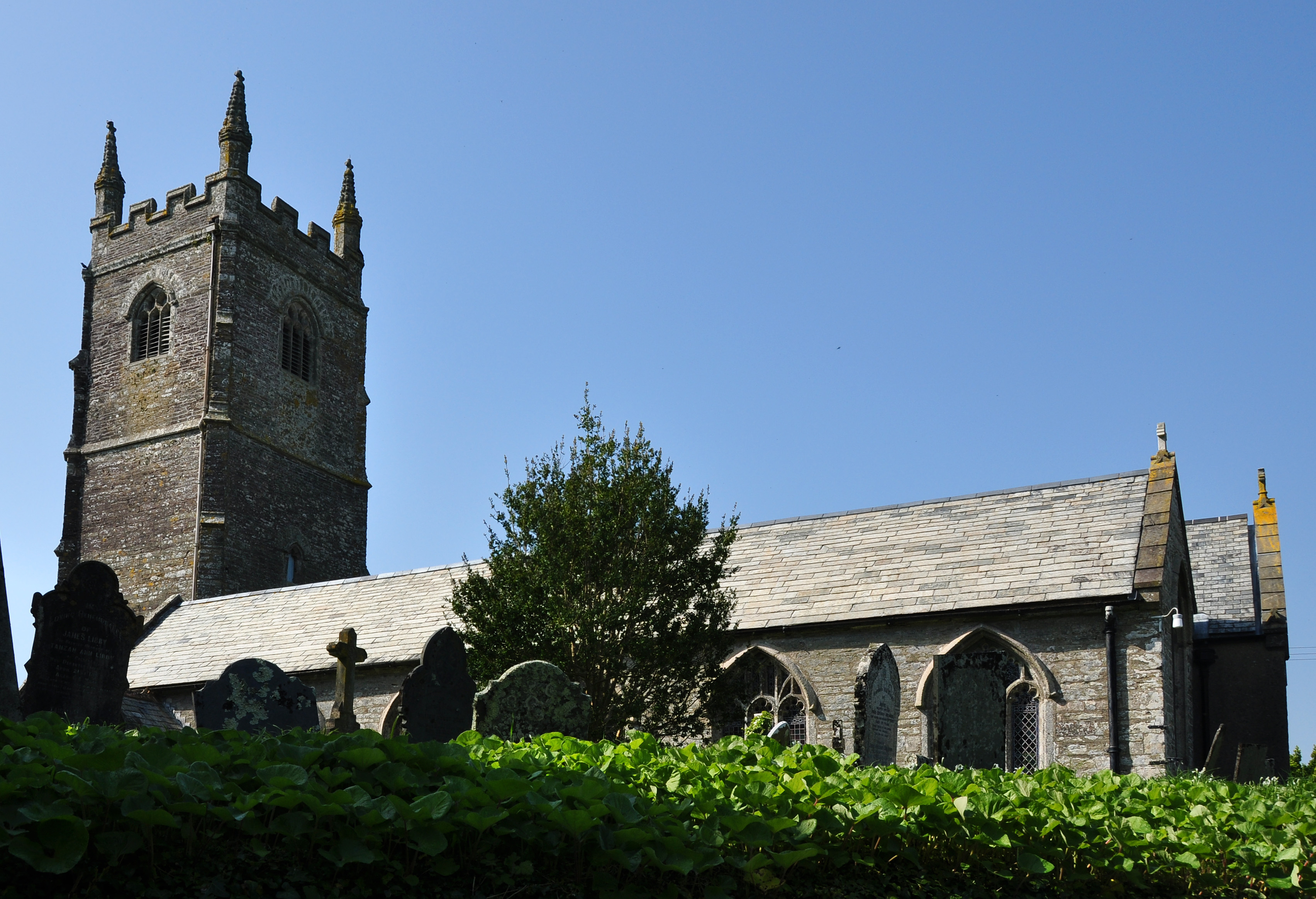 The Church of St Ildierna in Lansallos, Cornwall.